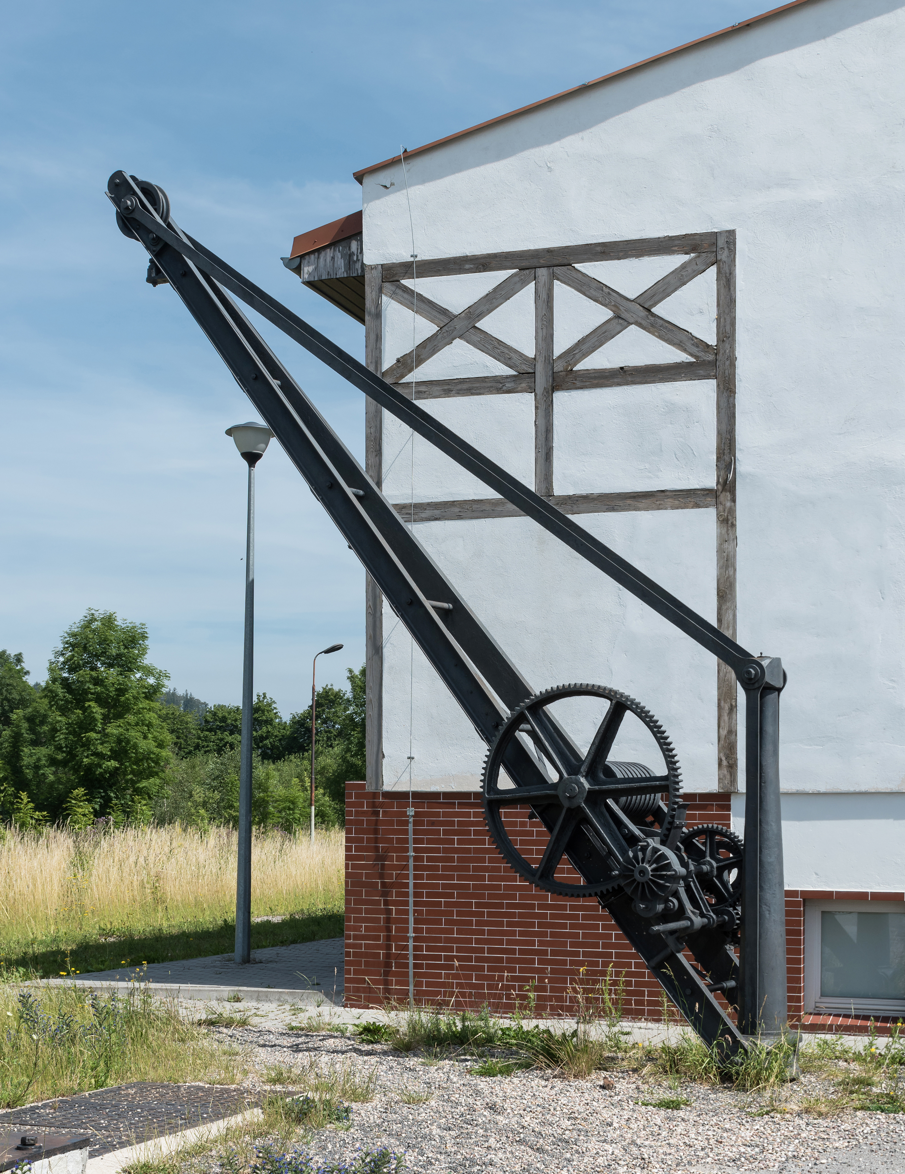 Crane in Stronie Śląskie